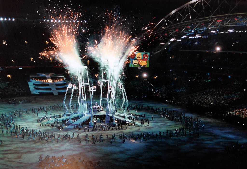 Opening ceremony of 2000 Olympic Games